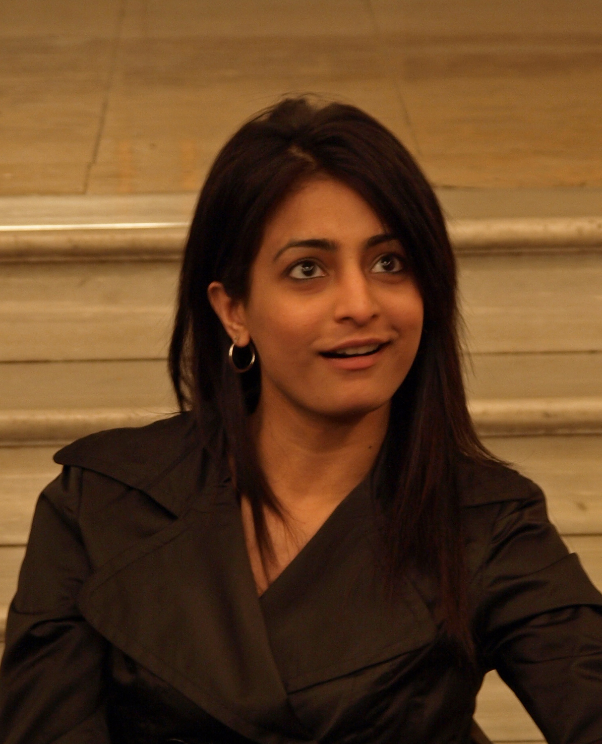 Shruti Merchant, coreógrafa de Bollywood (Barcelona, 27-2-2008).